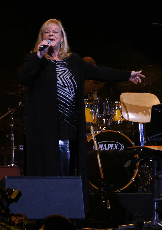 Marianne Mendt; charity concert 'atemberaubend 08' in support of researching pulmonary hypertension (lungenhochdruck.at) at the Wiener Stadthalle.